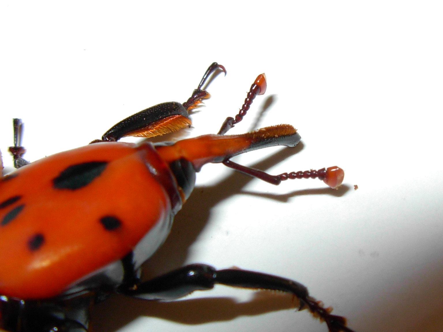 Rhynchophorus ferrugineus male - detail of rostrum